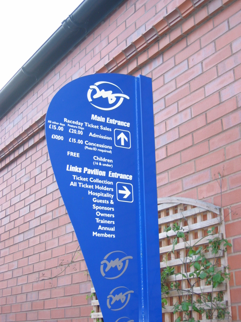 Musselburgh Racecourse, East Lothian, Scotland